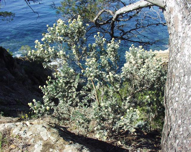 Anthyllis barba-jovis, a photograph originating of the internet site The permission of the autor, H. Brisse, is here.